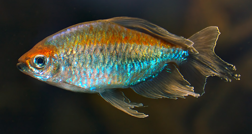 This image shows a Congo Tetra (Phenacogrammus interruptus).